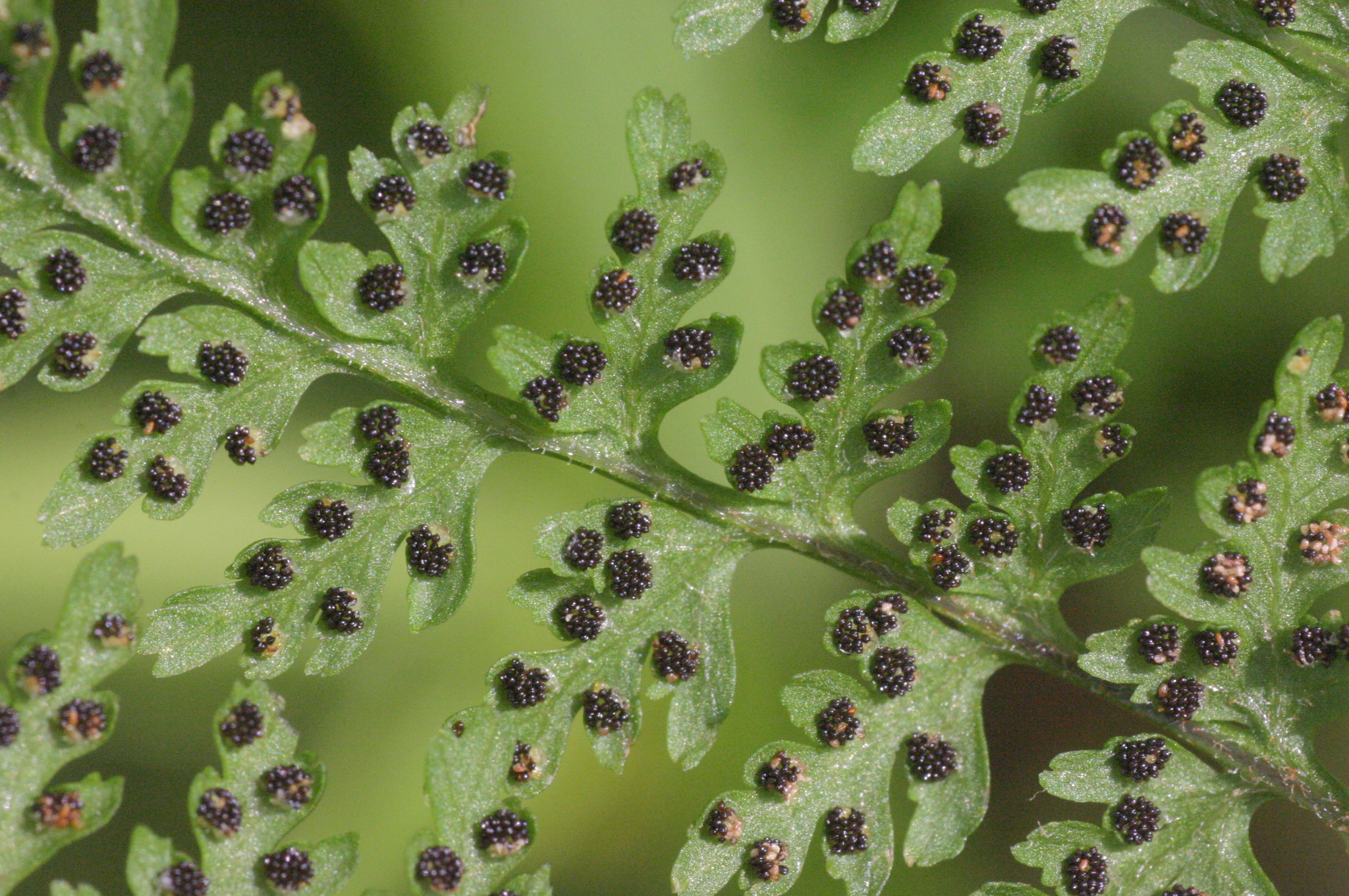 Cystopteris montana